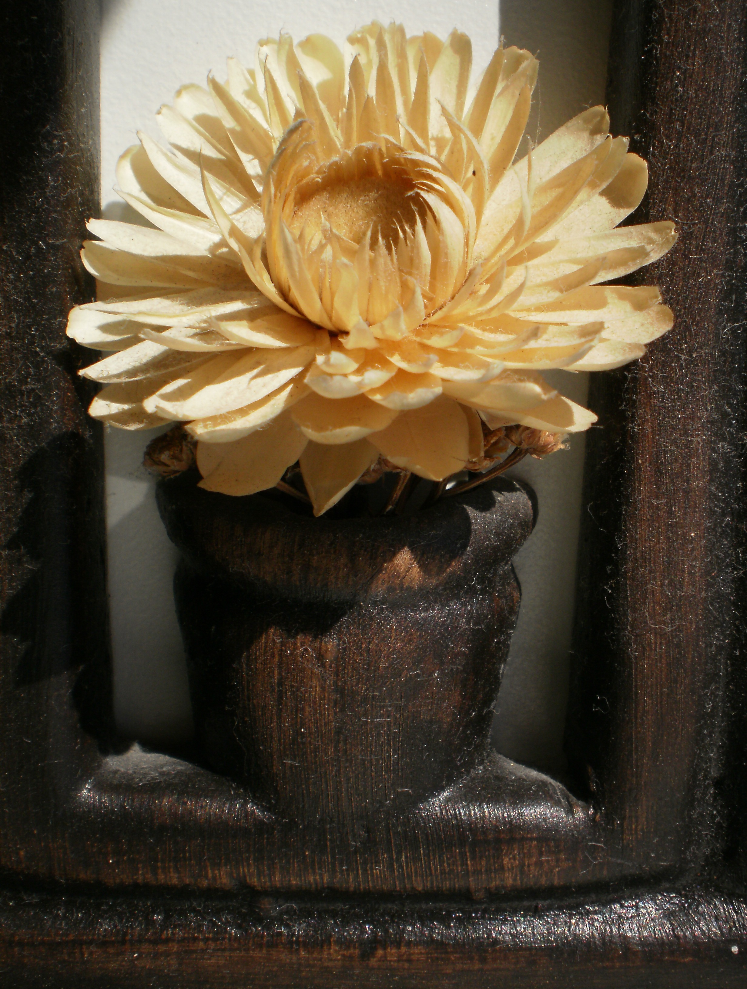 Dried flowers - decoration